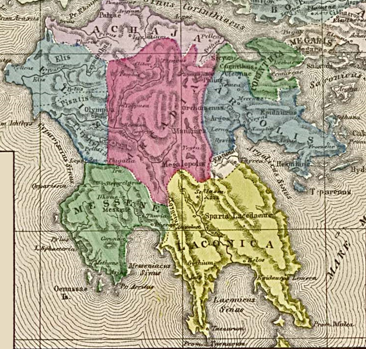 The Peloponnese in classical antiquity From "An Historical Atlas Containing a Chronological Series of One Hundred and Four Maps, at Successive Periods, from the Dawn of History to the Present Day." by Robert H. Labberton. Sixth Edition. 1884. Category:Maps of the history of Greece